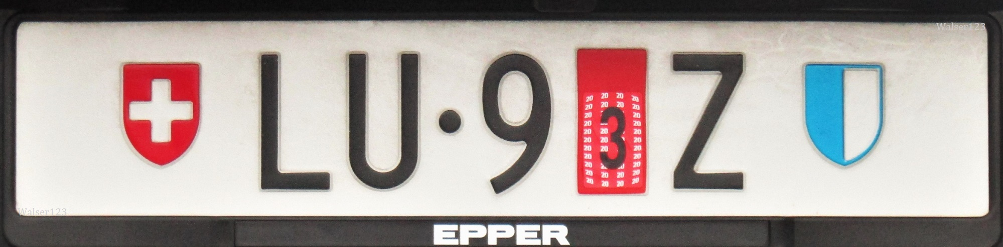 Schweizer Zollschild hinten